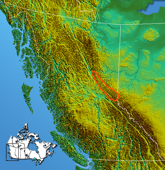 Locator map of the Hart Ranges in British Columbia, Canada. Adapted from File:Canadian_Rockies.png which is already in Wikimedia Commons